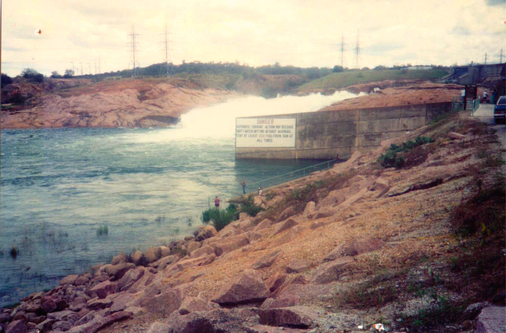 Photo taken by me on June 25th, 1997 during flood on Colorado River in Central Texas. Tailrace Fishing at Alvin Wirtz Dam with Main South Floodgate Open. Fisherman are at bottom of screen. Thanks. Fish in Peace.